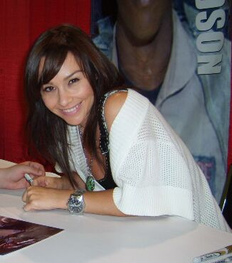 Danielle Harris and a fan at AdventureCon 2008 (cropped)